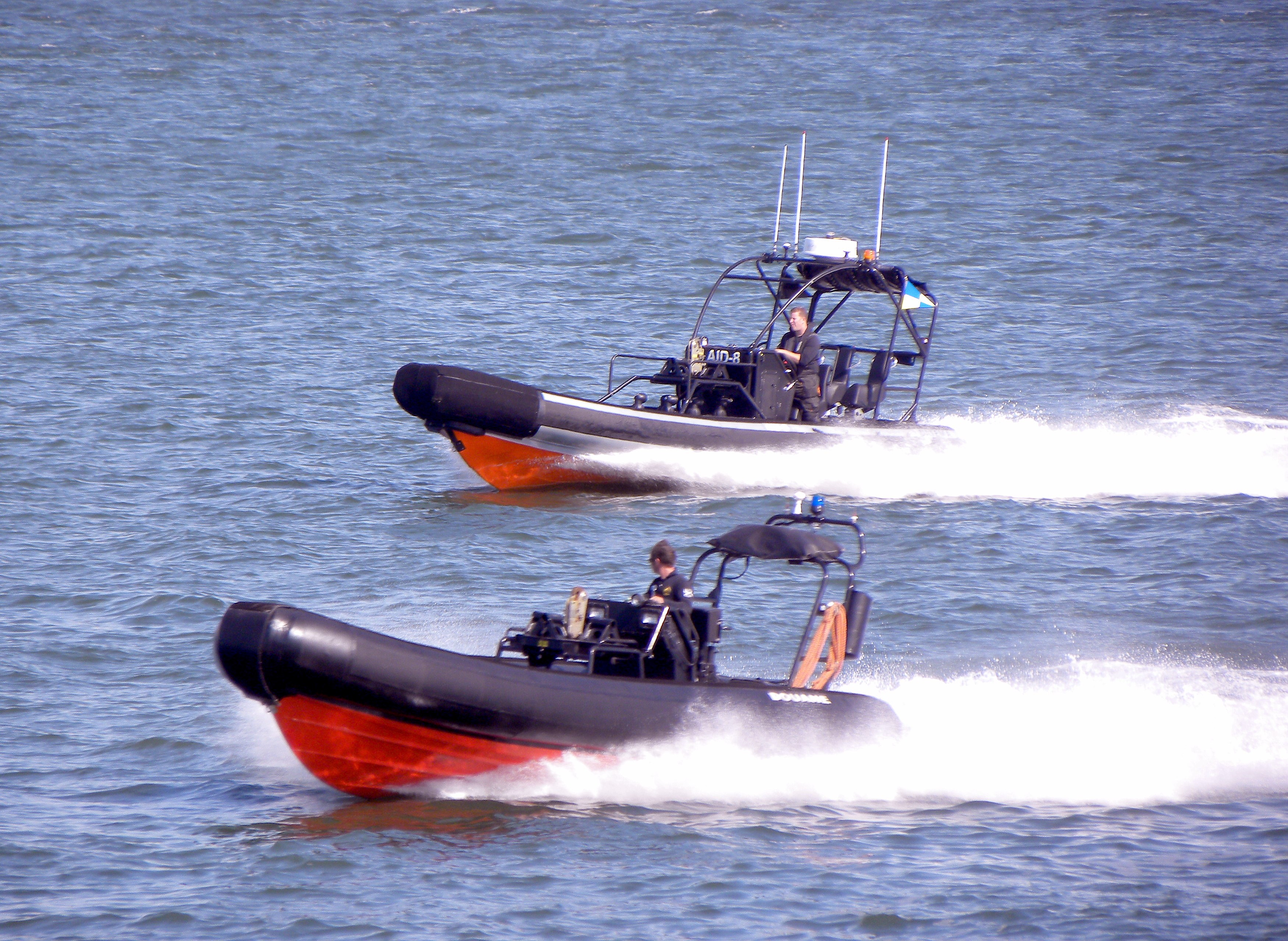 Douane & AID - 8 Algemene Inspectiedienst 8 -General Inspection Service boat and costoms boat